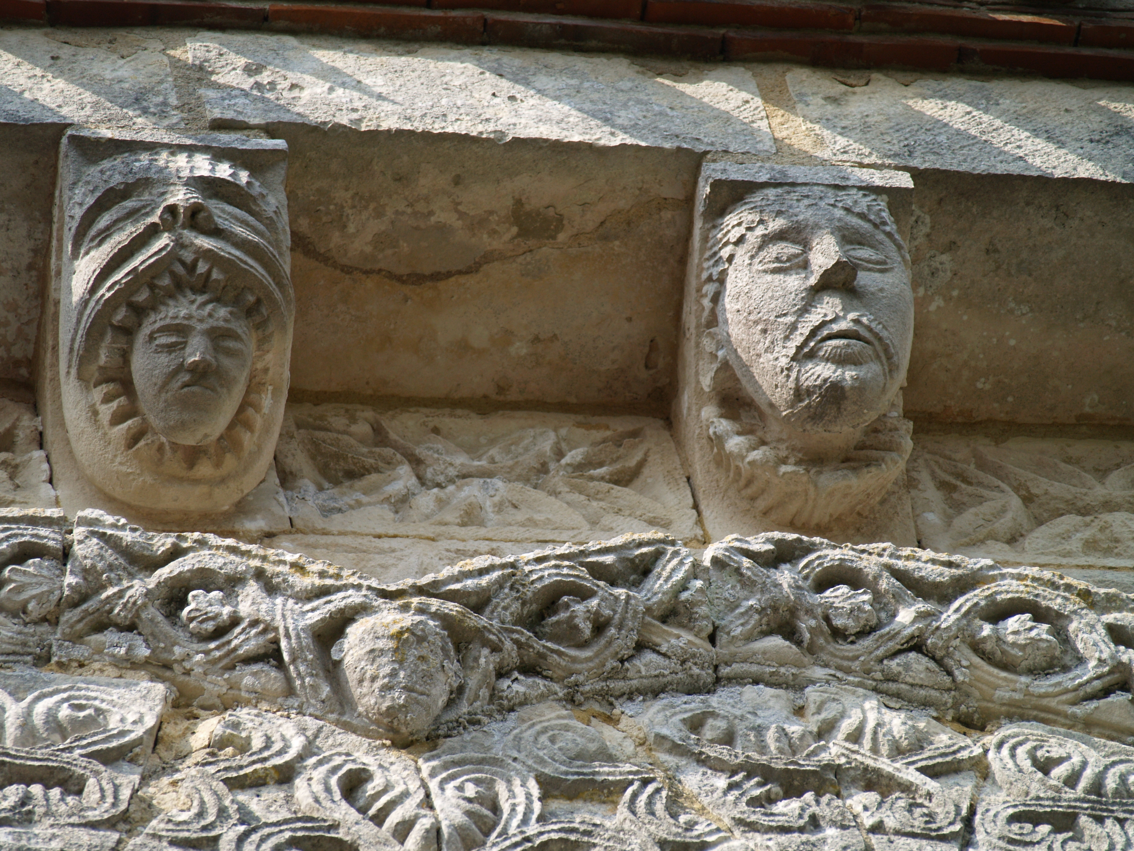 Rioux (Charente-Maritime, France) - Notre-Dame church - details of a corbel